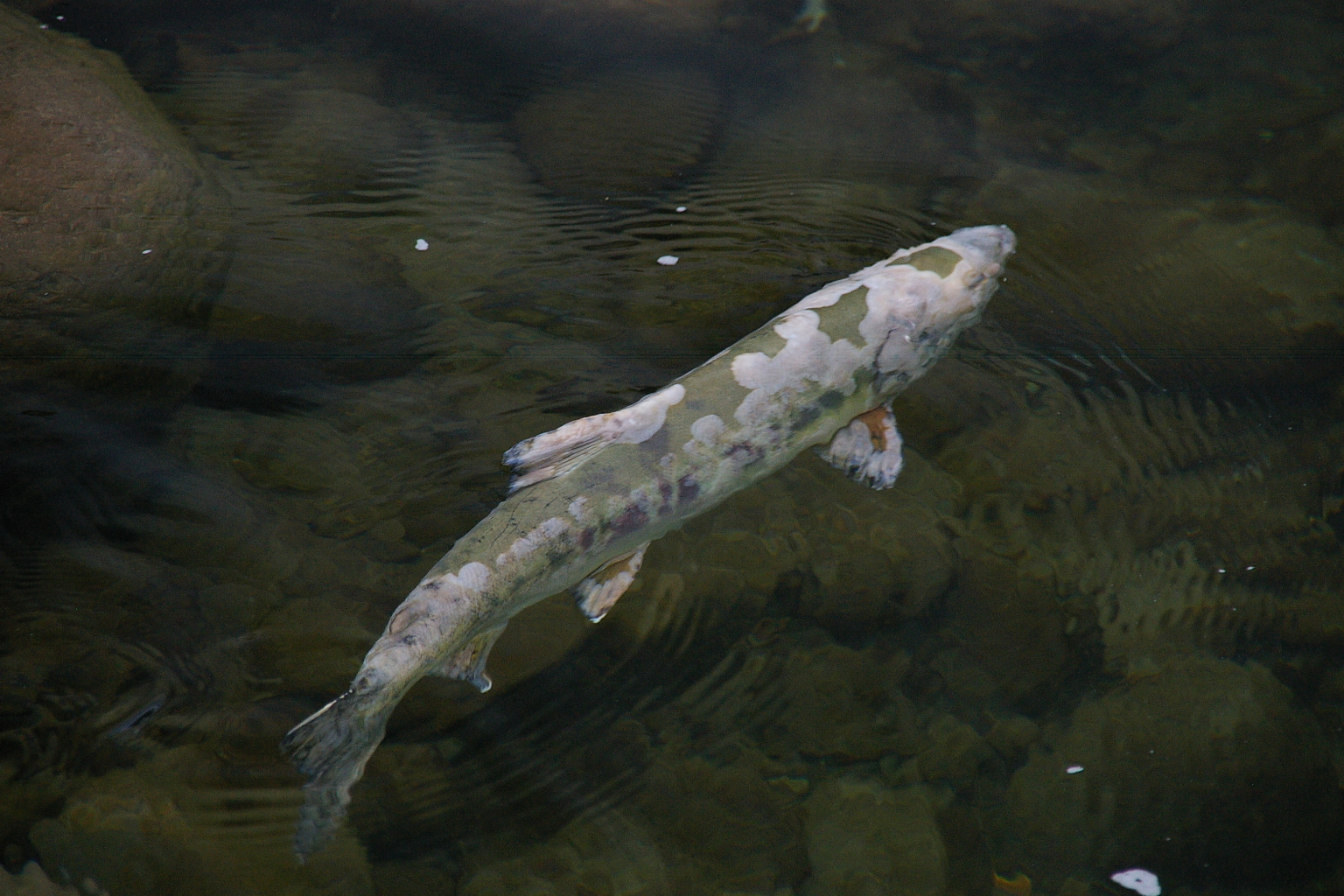 The male salmon which goes up.